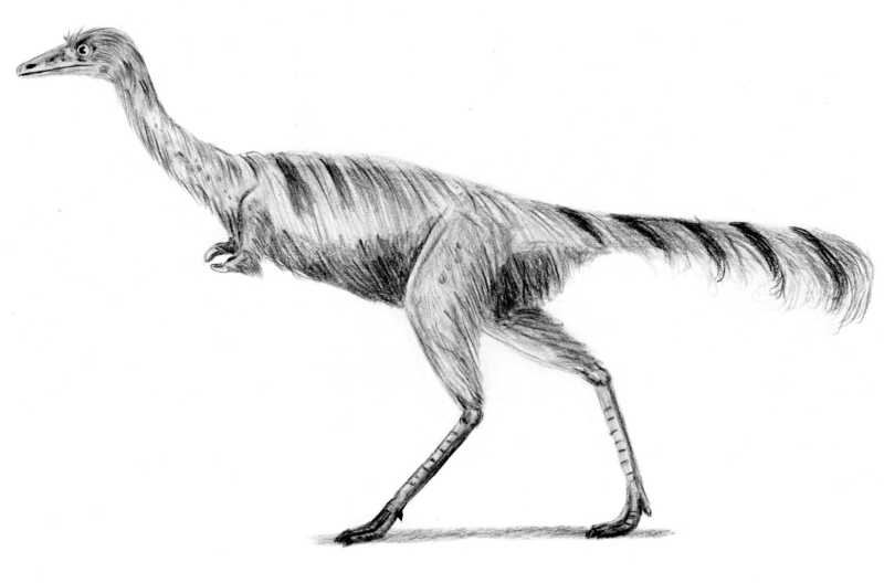 Mononykus, pencil drawing, version 2, based on the skeletal reconstruction in [1] Author:User:ArthurWeasley